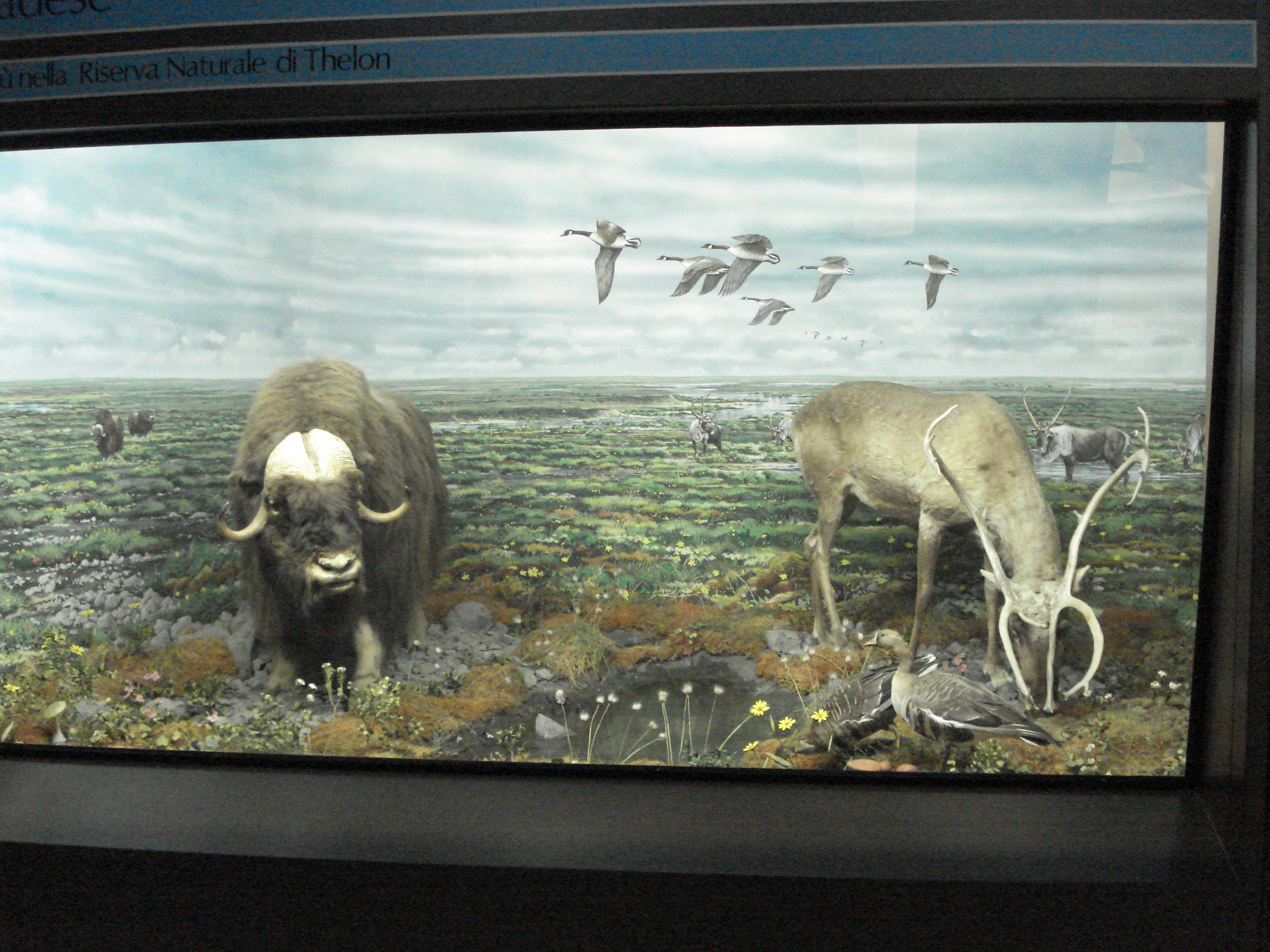 The Natural history museum in Milan, Italy. Diorama about the fauna living in the Thelon Game Sanctuary in Canada. Picture by Giovanni Dall'Orto, december 20 2006.